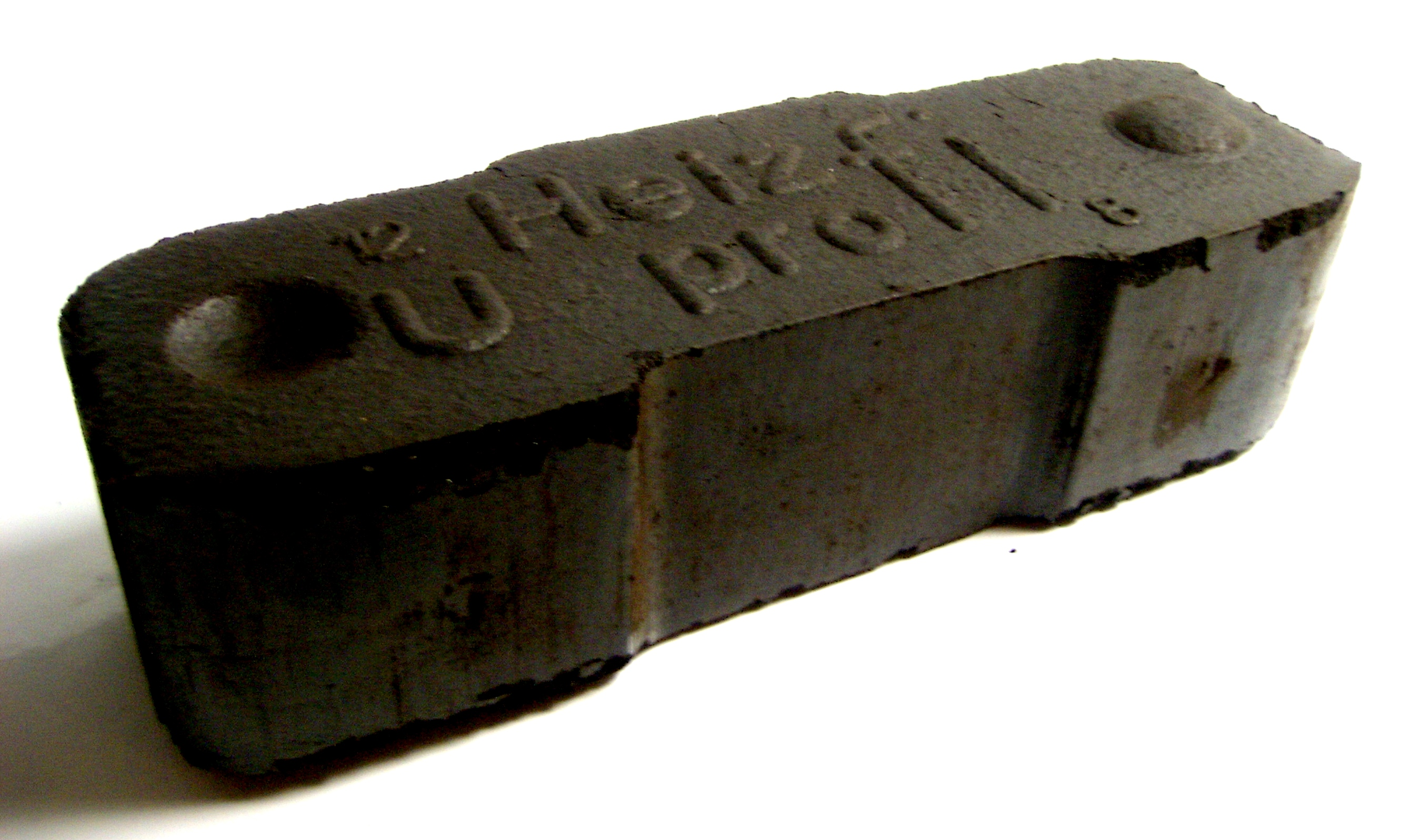 Lignite briquette